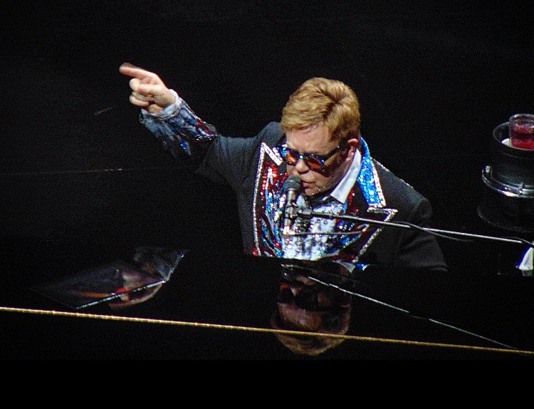 Elton performing in Tampa, FL